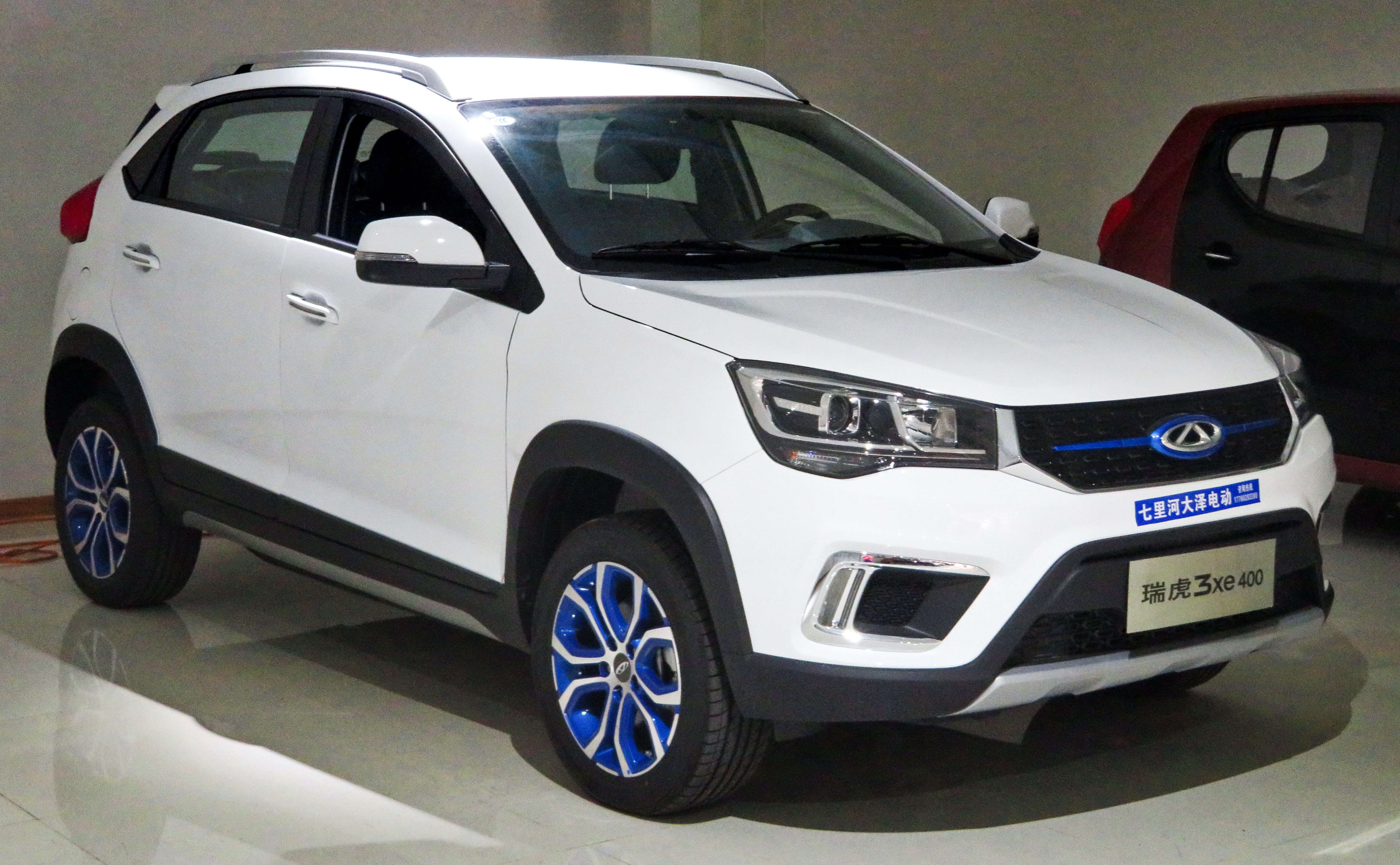 A 2018 Chery Tiggo 3xe photographed in Xigong District, Luoyang, Henan province, China